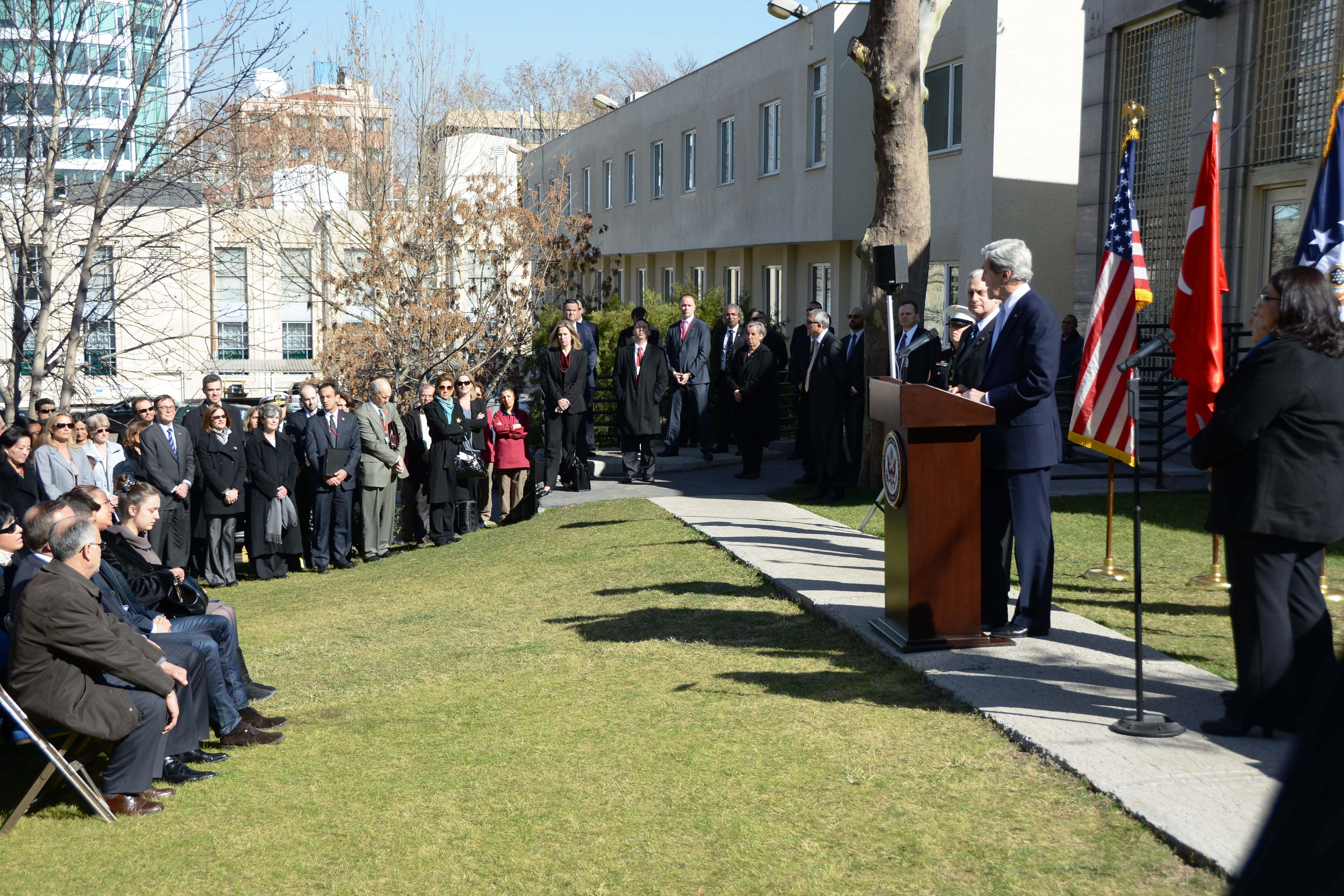 U.S. Secretary of State John Kerry delivers remarks at a memorial ceremony in honor of Embassy guard Mustafa Akarsu at the U.S. Embassy in Ankara, Turkey, on March 1, 2013. [State Department photo/ Public Domain]